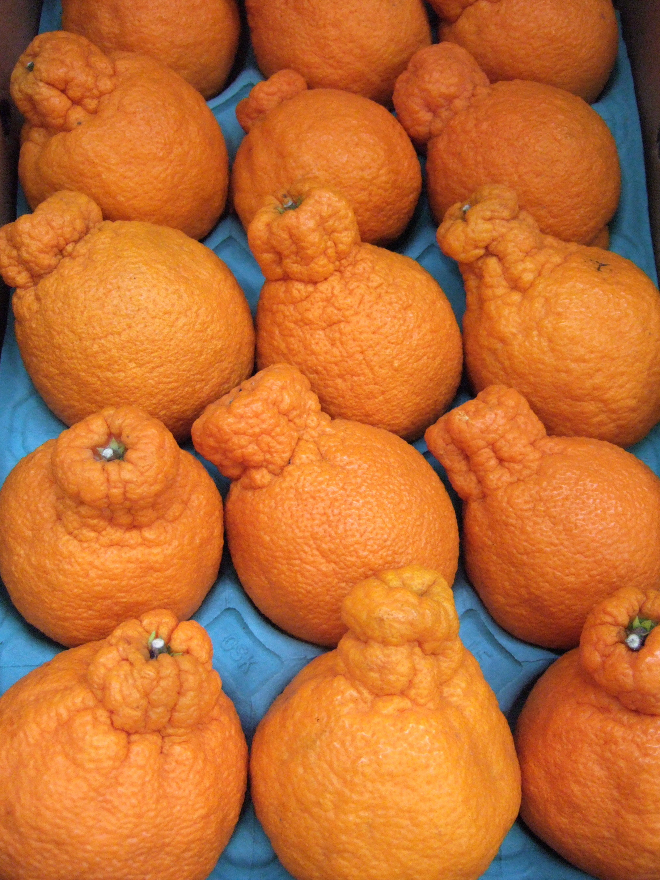 Dekopon (Citrus reticulata Siranui)